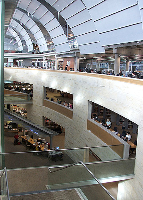 University of Otago, central library from inside.